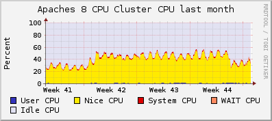 Increased load for apaches after increase of job queue runners on October 2010.[1] [2]